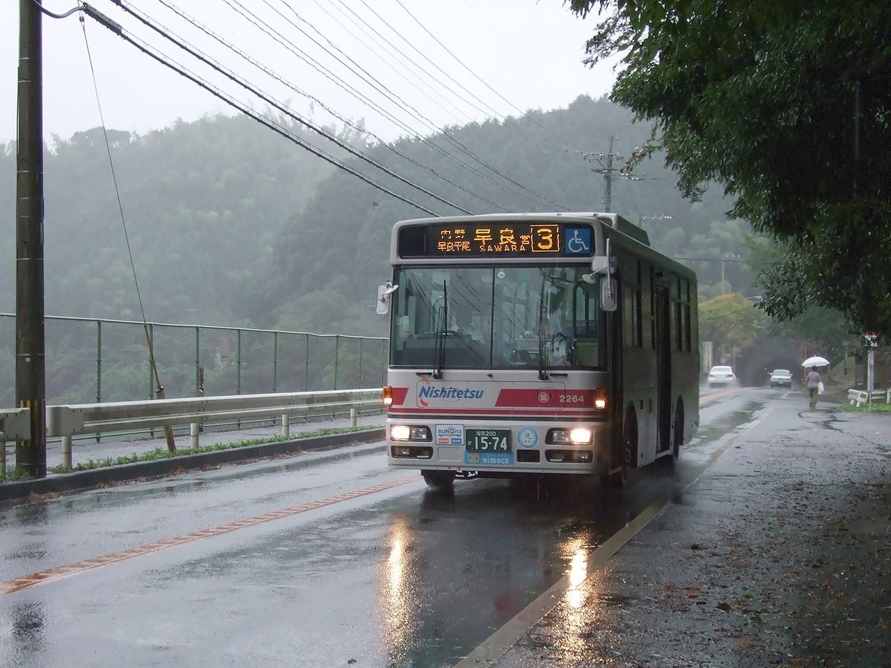 Company:Nishi Nippon Railroad Use:transit bus Belongs to:Wakiyama Depot Car license:福岡200 か 1574 Code:2264 Chassis manufacturer:Isuzu Motors Coachbuilder:Nishinippon Shatai Kogyo Location:in Sawara-ku, Fukuoka City, Fukuoka, Japan